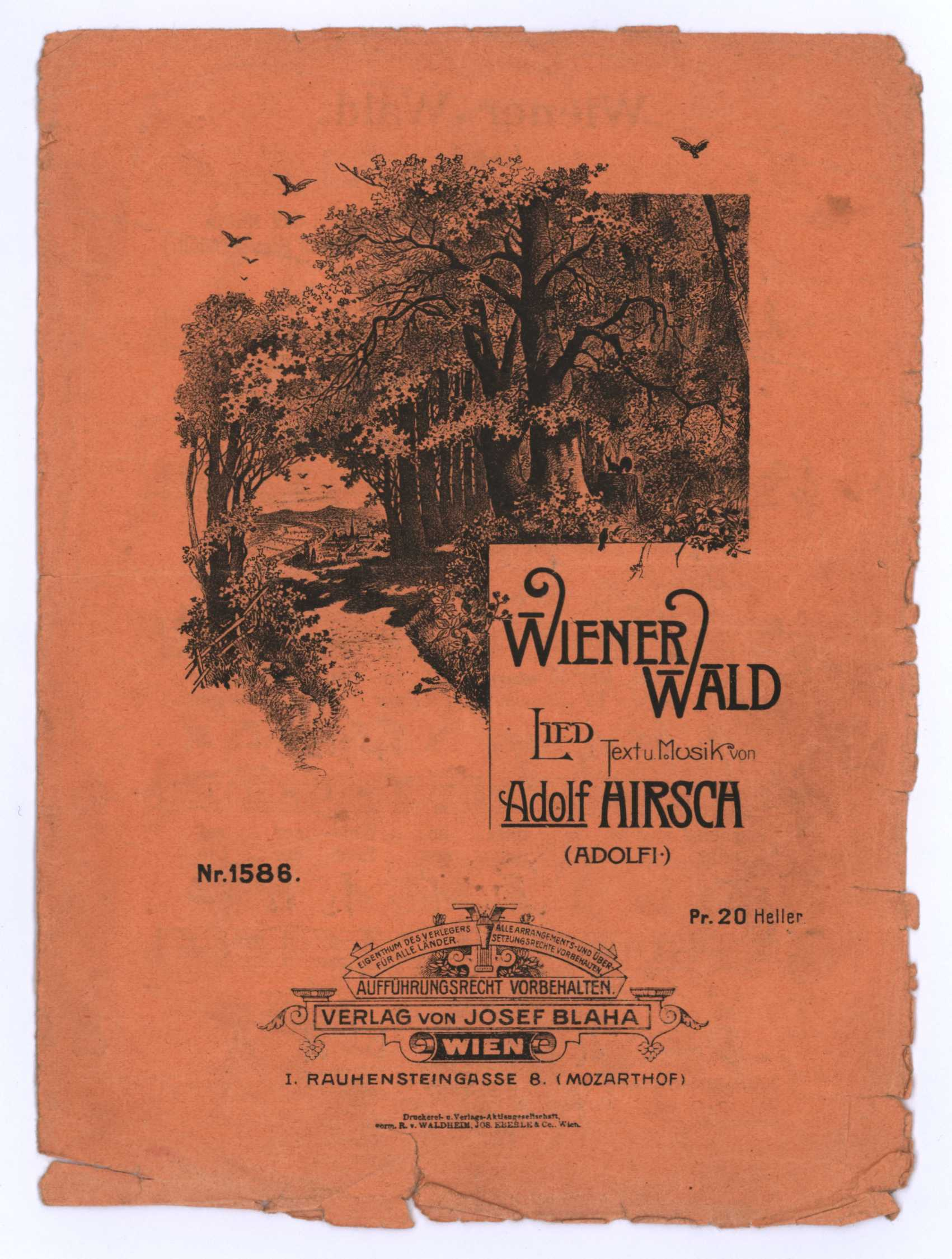 Music printing, title page, publisher Josef Blaha, Vienna, 1900